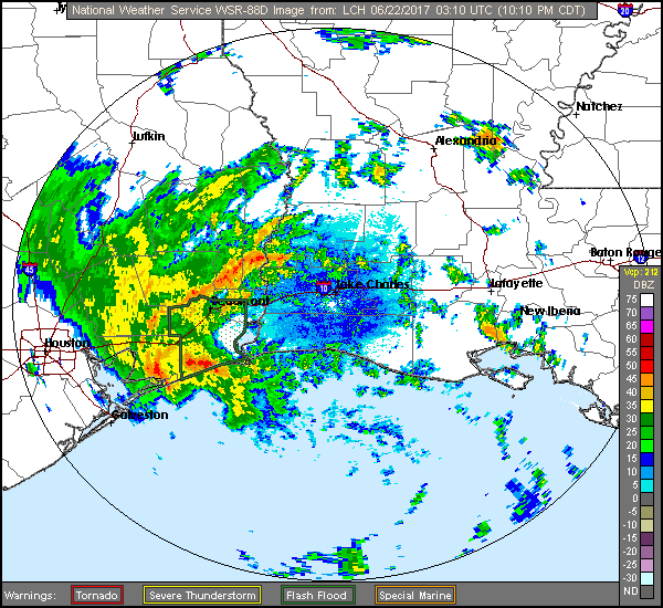 The latest position from National Hurricane Center is 95 miles or 153 kilometers from Port Arthur, Texas as of 10:00 PM or 2200 CDT. Here is the latest Doppler radar image out of NWS Lake Charles.